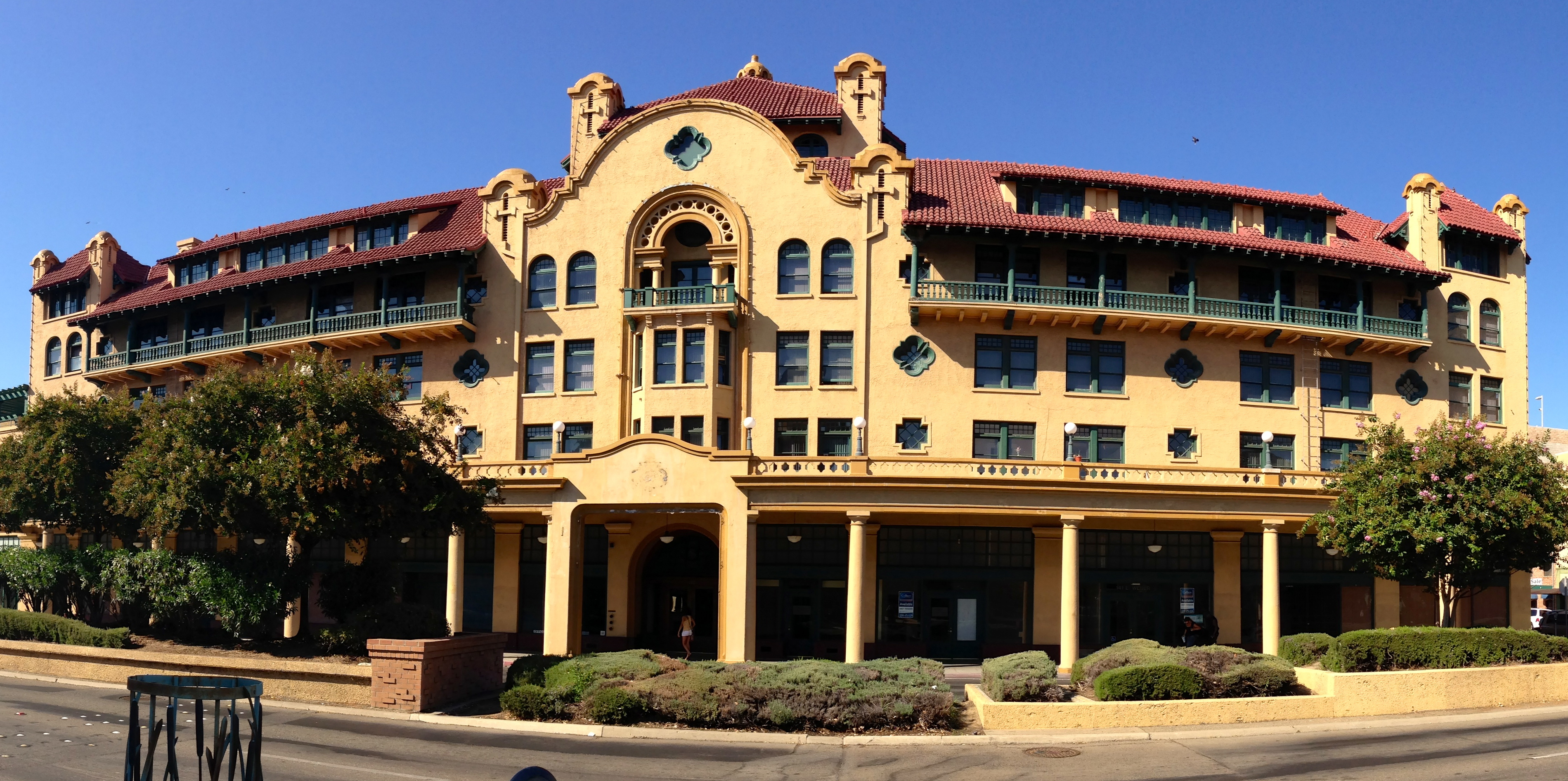 Hotel Stockton